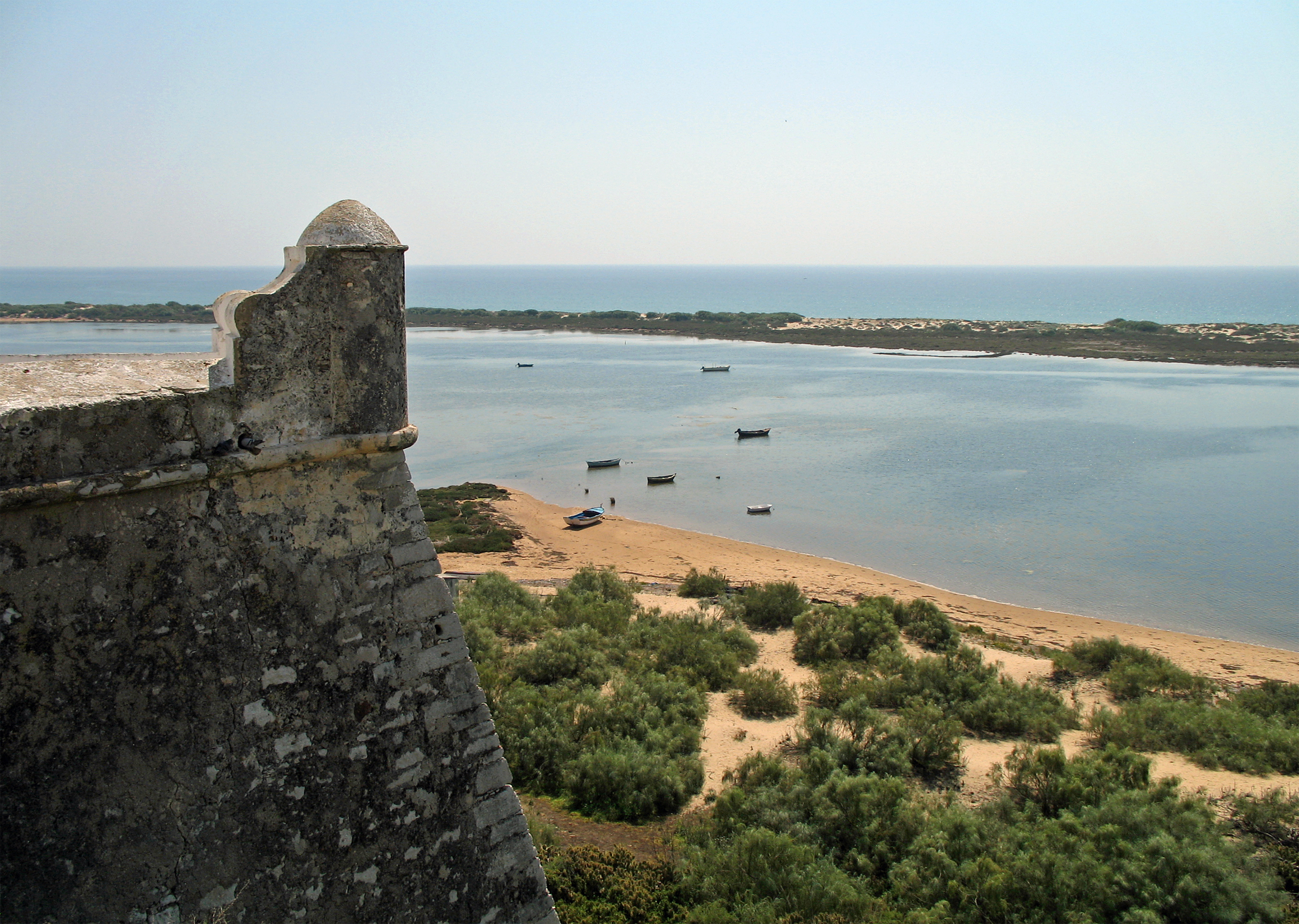 Ria Formosa coast near Cacela Velha (Algarve, Portugal)